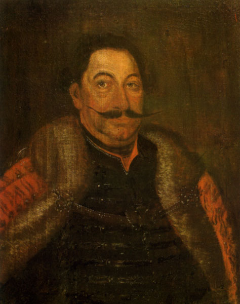 Portrait of Ivan Boshnyak, commandant of Saratov.